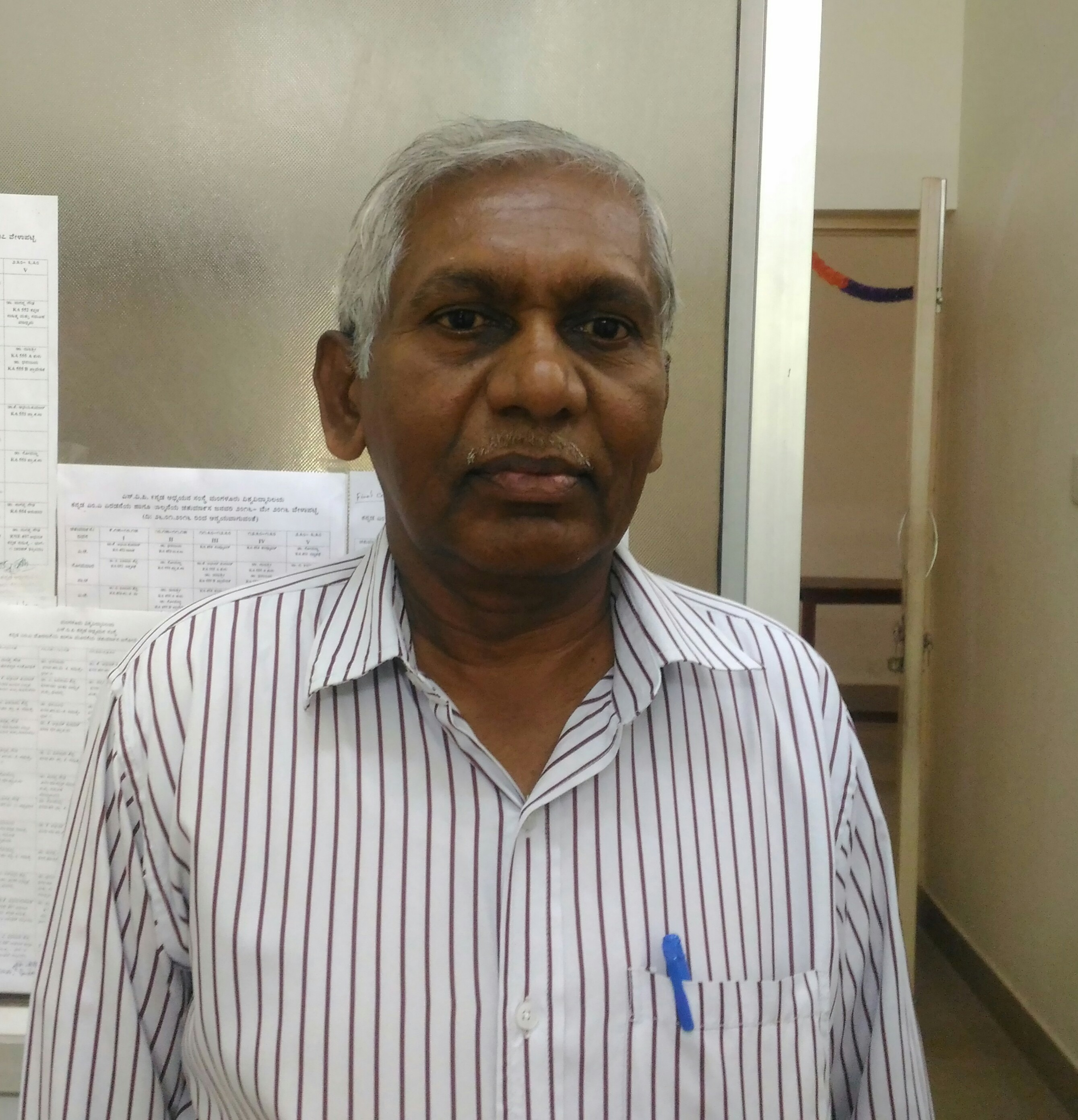 Kannada writer teppeswamy